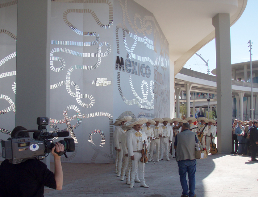 Outside of the lower part of the Mexican Pavilion in Expo 2008 Zaragoza, during National Day.